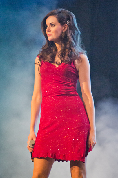 Stacey Roy on stage for Abandon Paris music video